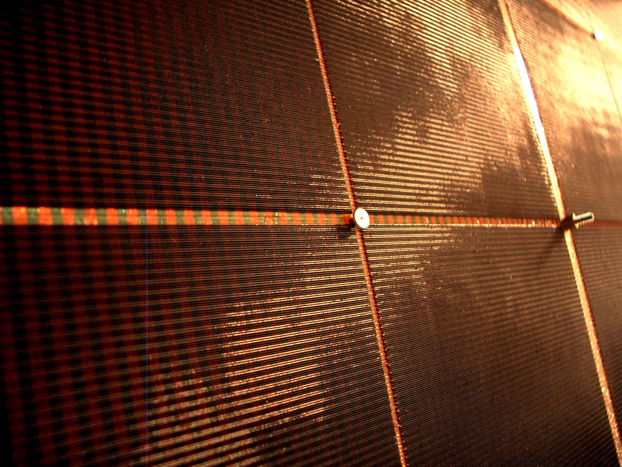 This is a core memory board. There are 36 square patches on this double-sided board, 1.5 megabits in all.